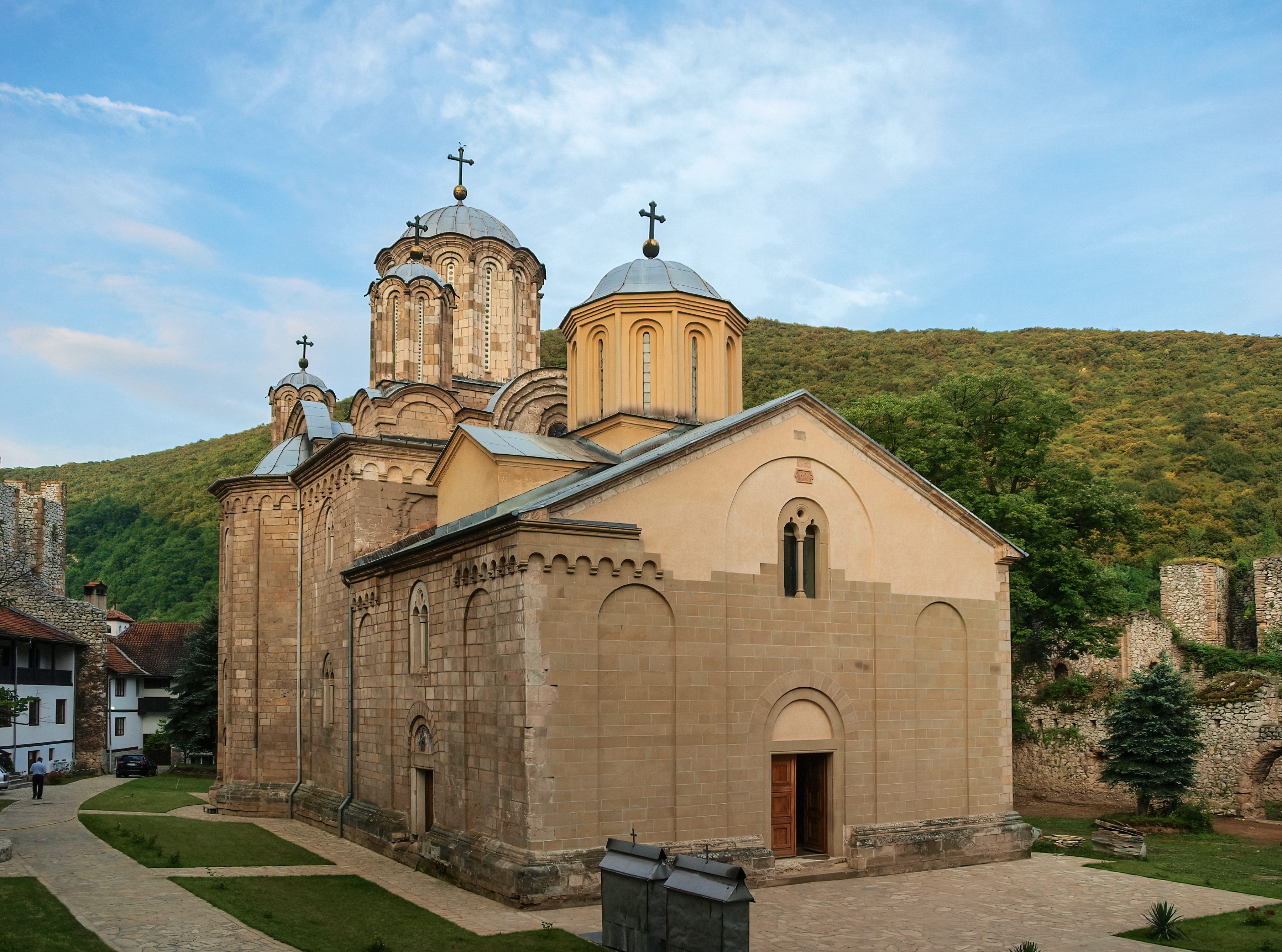 Manasija monastery, Serbia.